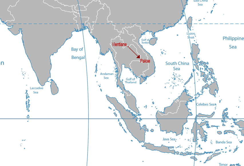 Route of Flight Lao Airlines 301, crashed on October, 16th 2013 near Pakse, Laos